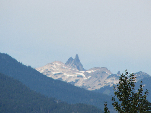 Mount Fee towering over the Ember Ridge North subglacial dome.